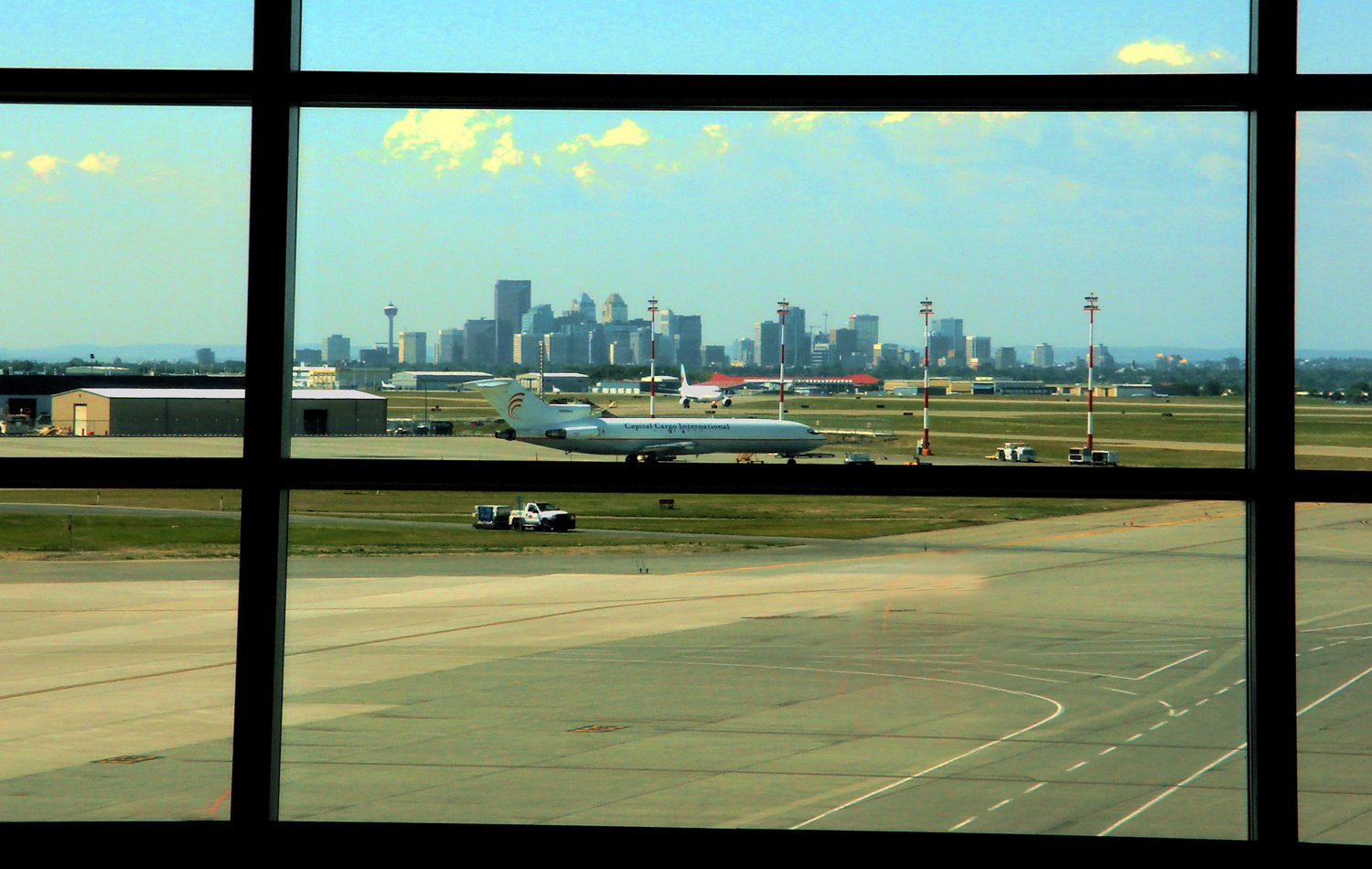 View of Calgary downtown from International Airport